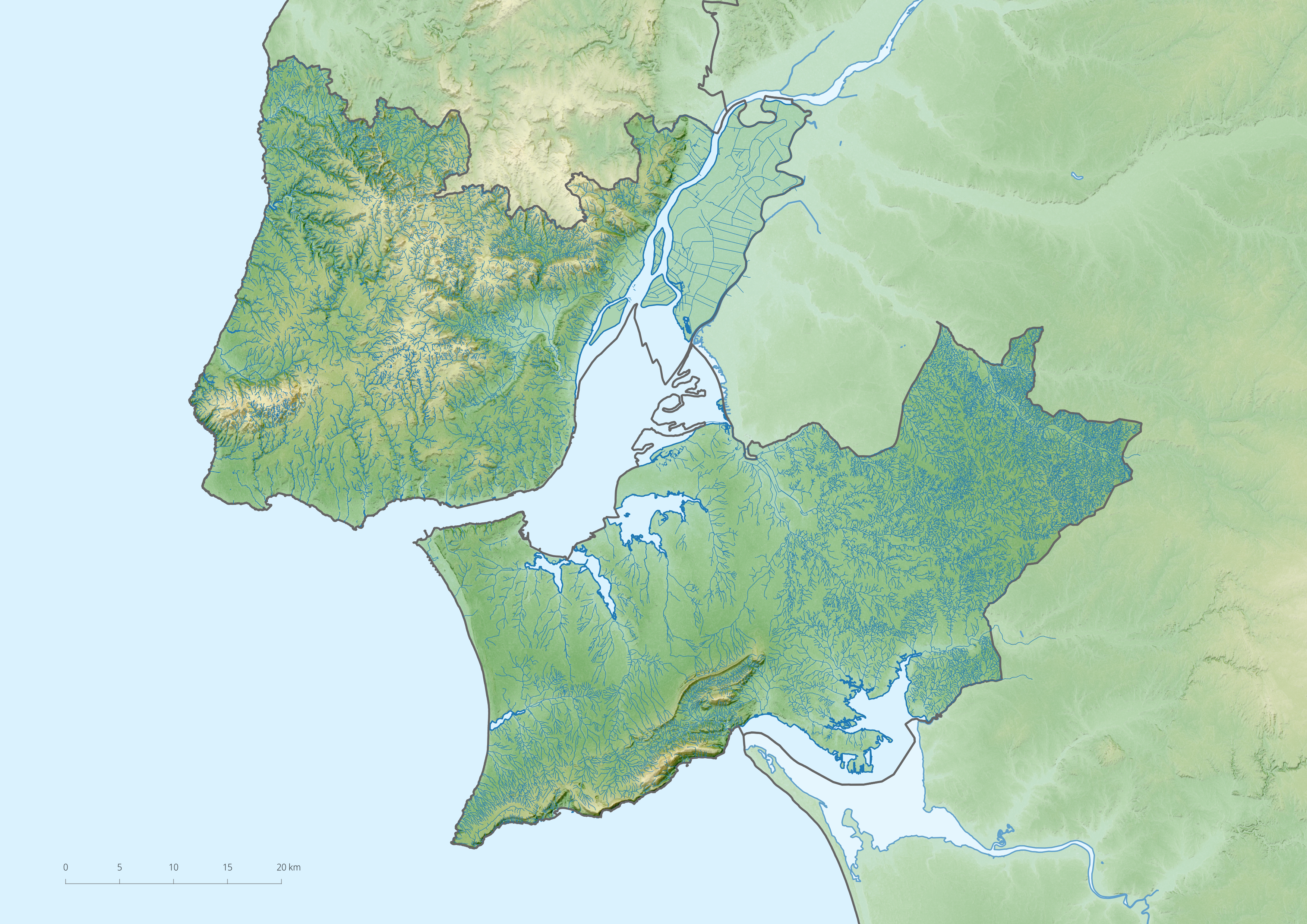 Relief map of the Lisbon Metropolitan Area, Portugal, complete with administrative boundaries, as well as streams and rivers.